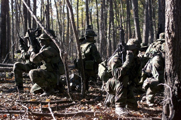 SEALs in woodlands operation. Contents 1 Copyright 2 Source of image 3 Licensing 4 Original upload log Copyright Public domain: United States Navy SEALs. Source of image Taken on January 15, 2004 from [1]: Official U.S. Navy SEALs Information Web Site: Image Gallery